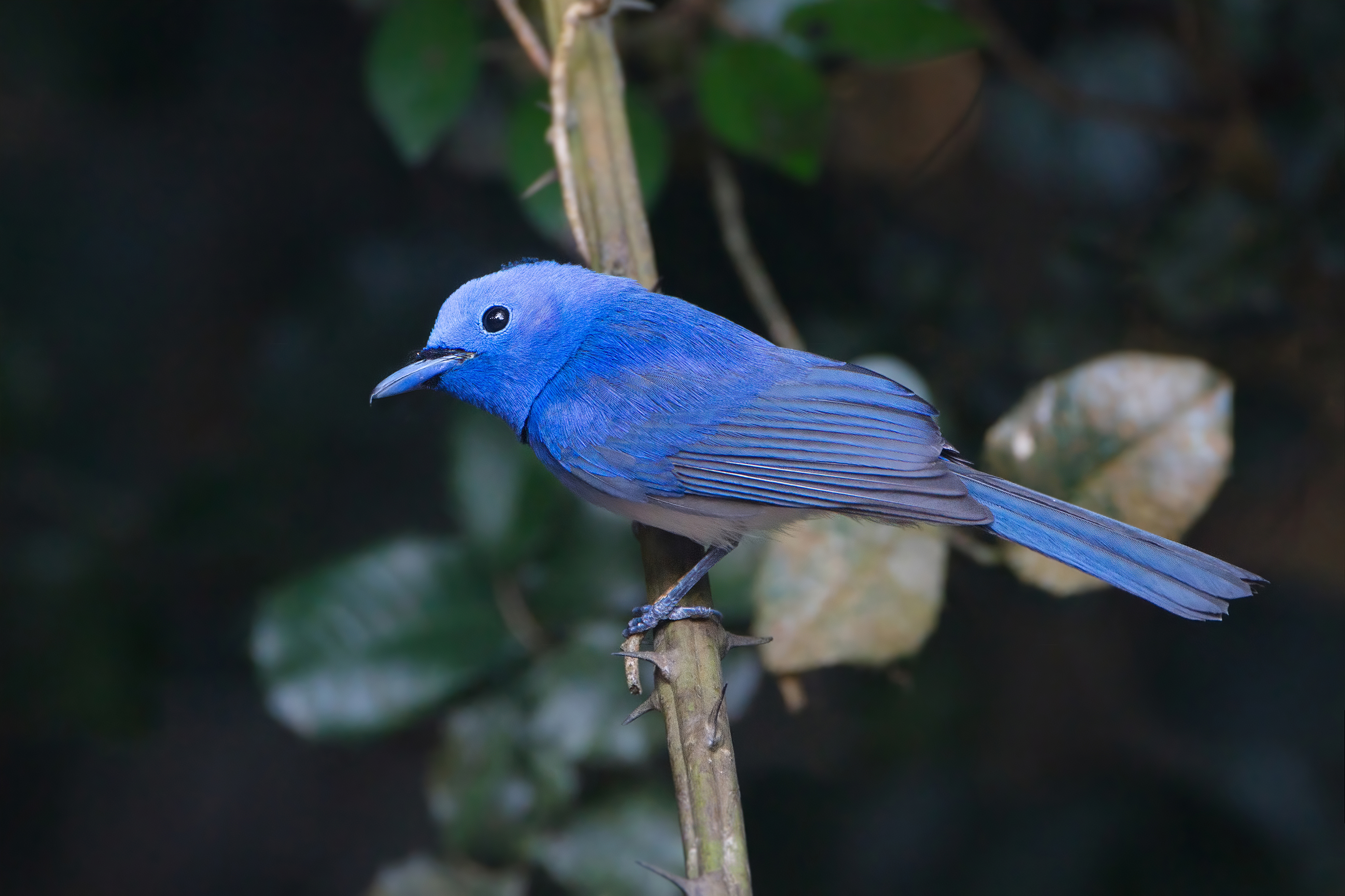 Black-naped Monarch (Hypothymis azurea), Kaeng Krachan, Petchaburi, Thailand